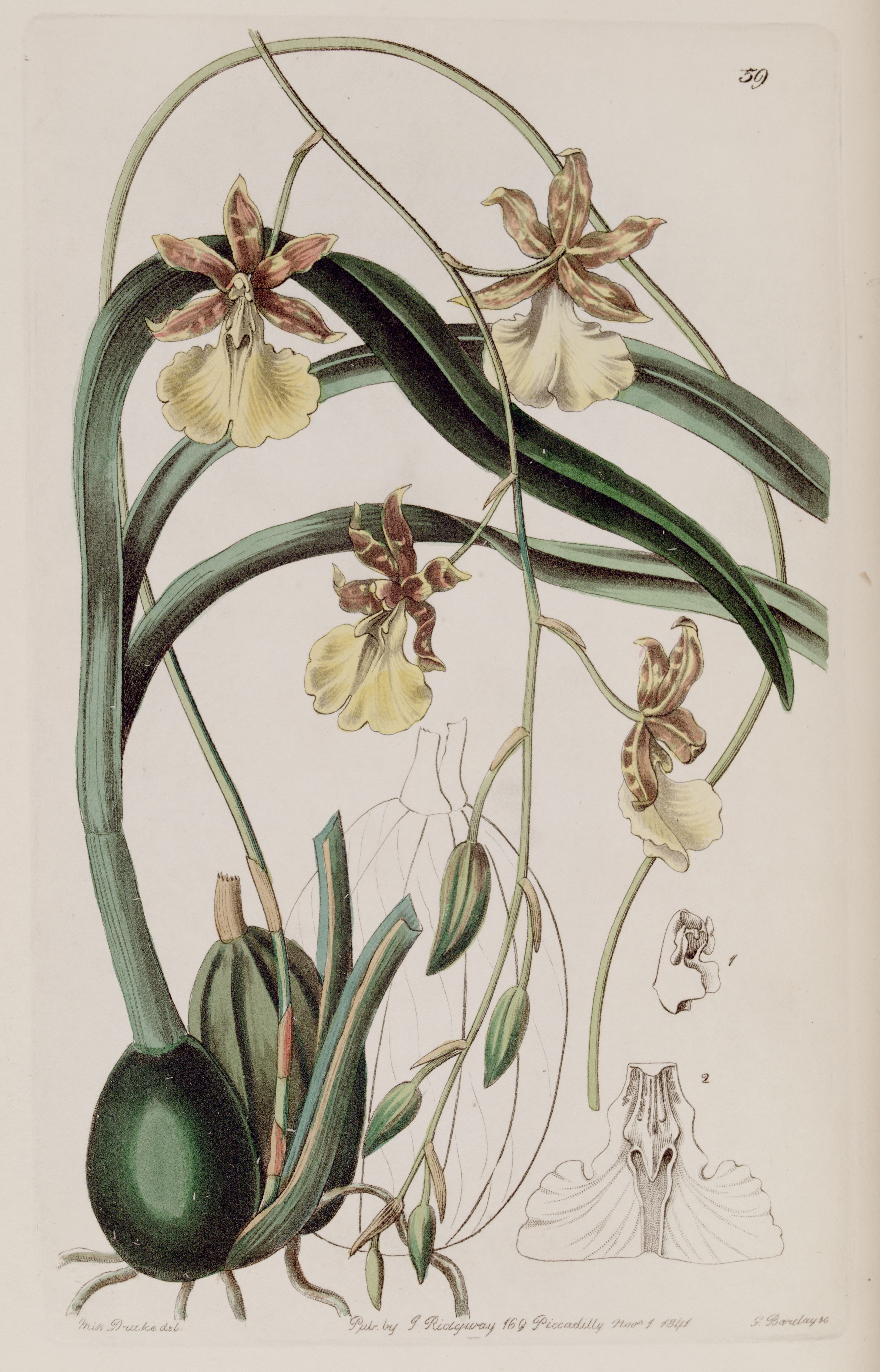 Oncidium graminifolium (as syn. Cyrtochilum filipes)